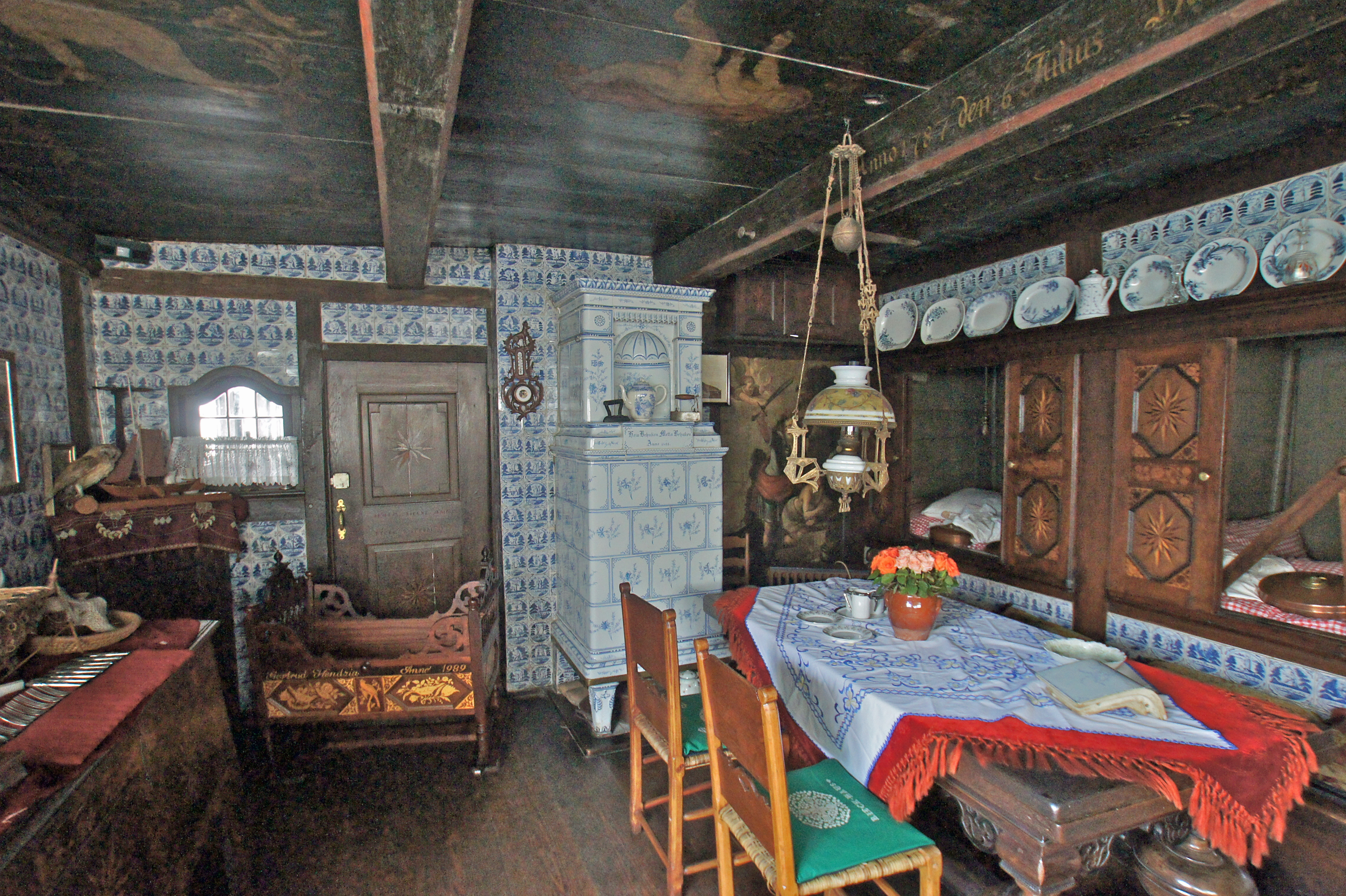 Hamburg (Curslack), Germany: Living room in the Rieckhuus